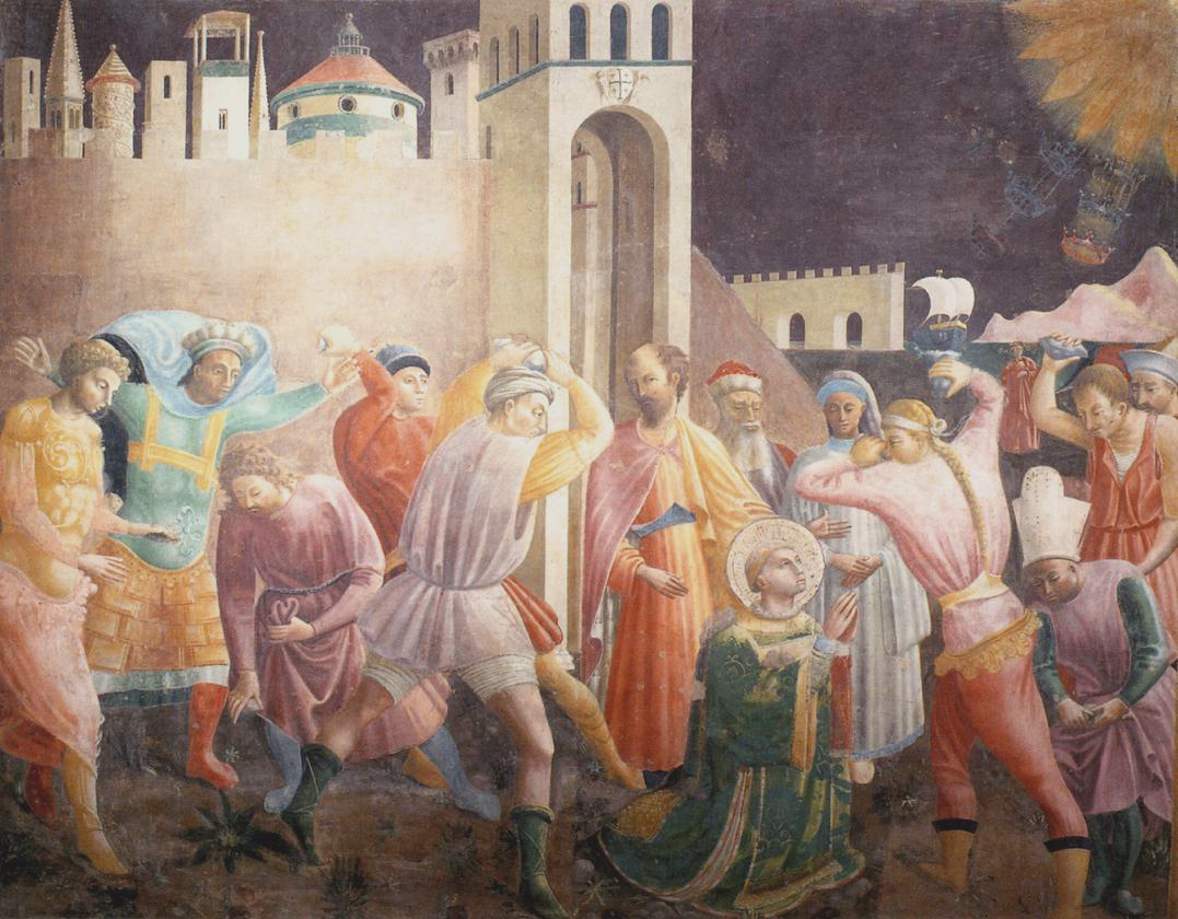 UCCELLO, Paolo Stoning of St Stephen Fresco, 310 x 420 cm Duomo, Prato